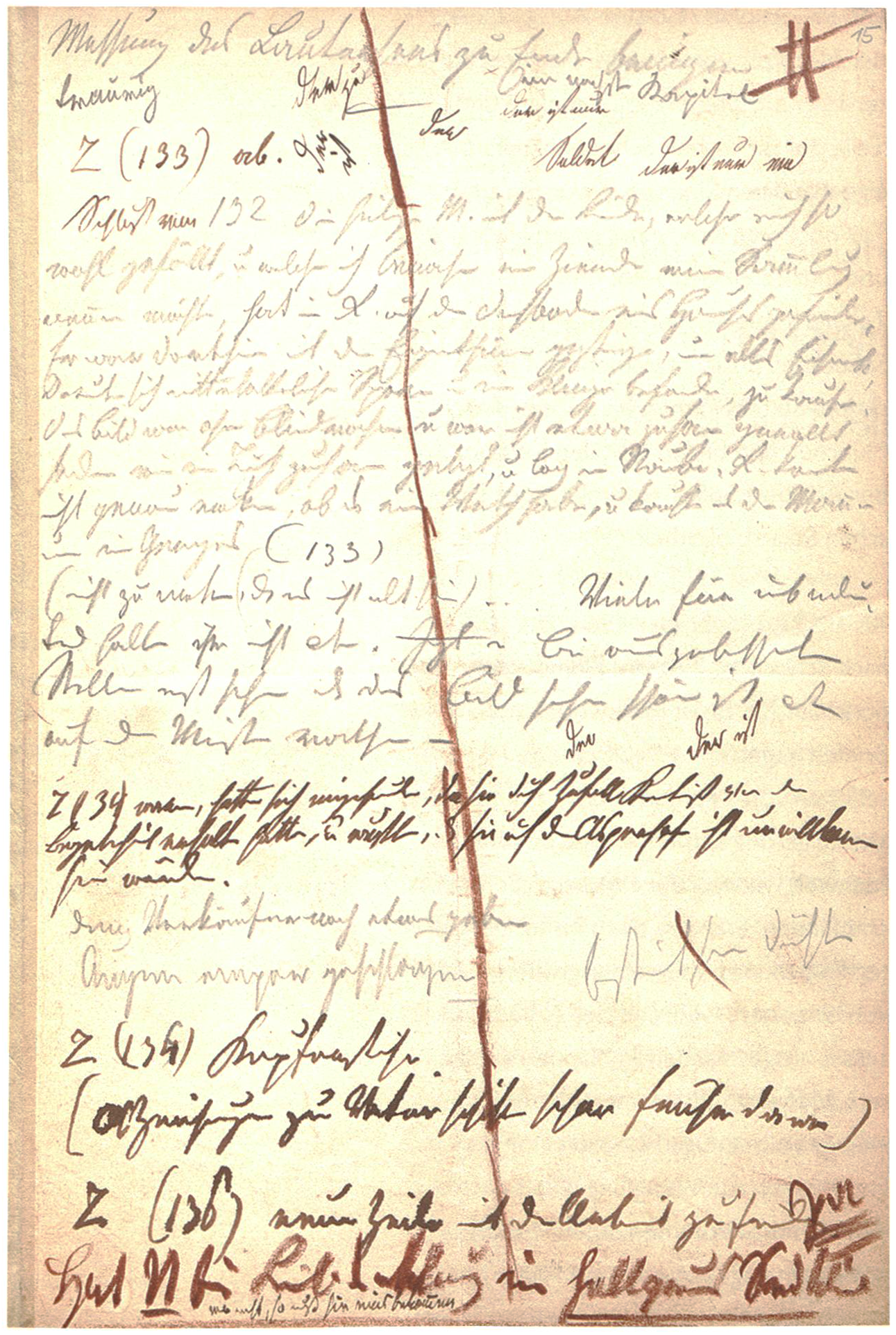 Adalbert Stifter: Notes taken while writing Nachsommer